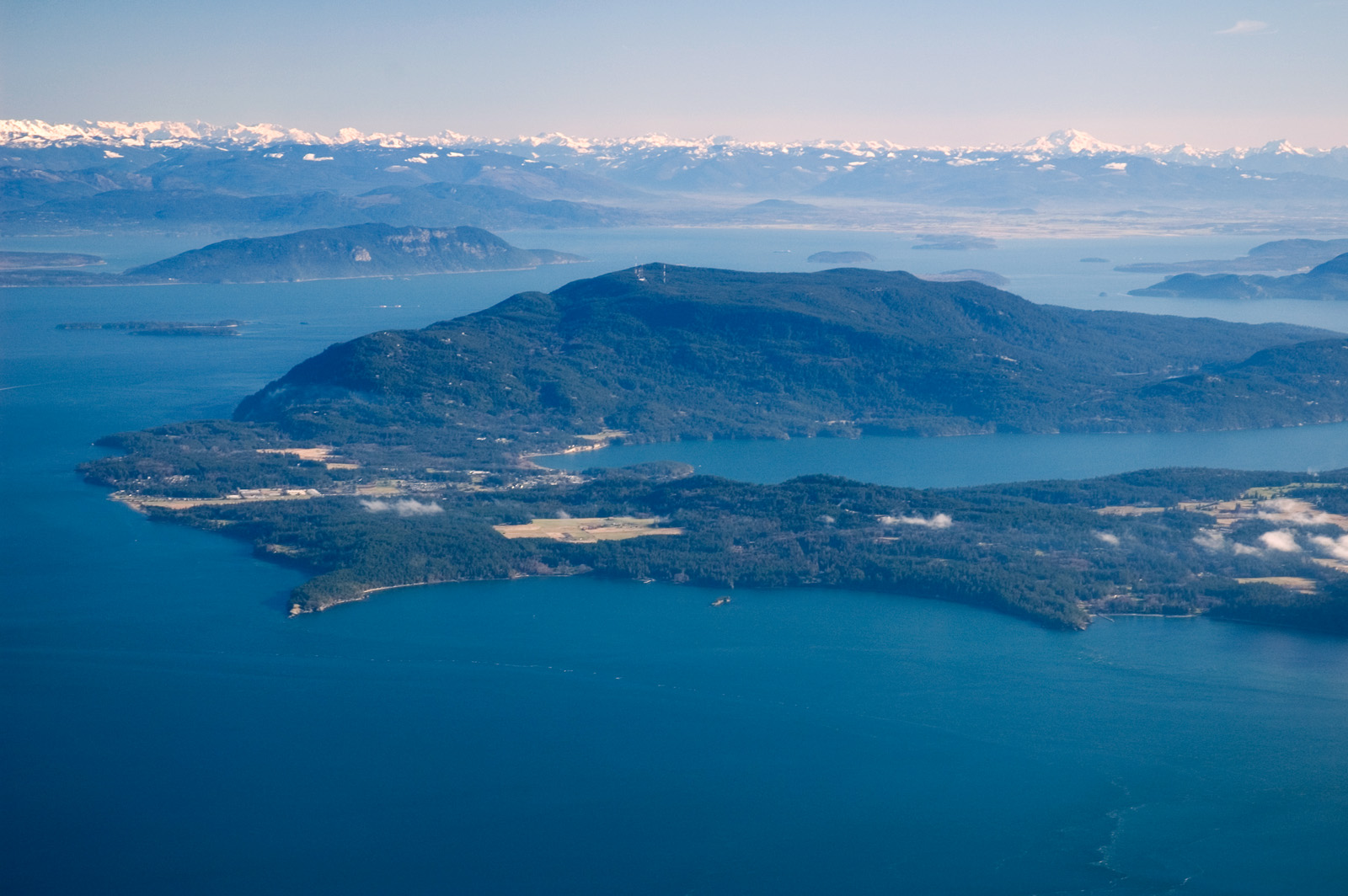 An aerial view of Orcas Island, one of the islands that make up the San Juan Islands in northern Puget Sound. Its coastline is a mix of sandy and rocky beaches, and shallow and deep harbors which provide habitat for a wide variety of plants and animals.